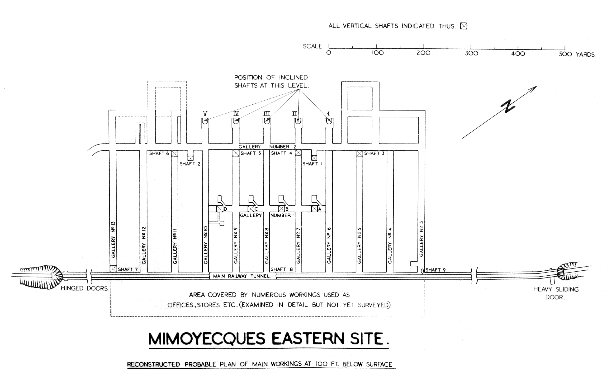 Reconstructed probable plan of main workings at 100 ft below surface. [Original caption]